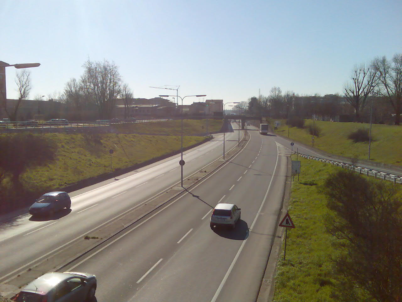 The city bypass of Cremona (Lombardy) is part of the State road SS 10 "Padana Inferiore"